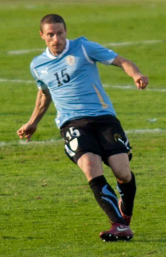 Diego Pérez playing for Uruguay during a friendly game against the Netherlands.